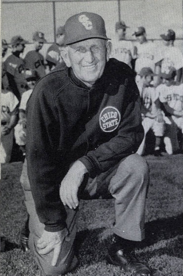 Chico State College baseball coach Roy Bohler in 1960